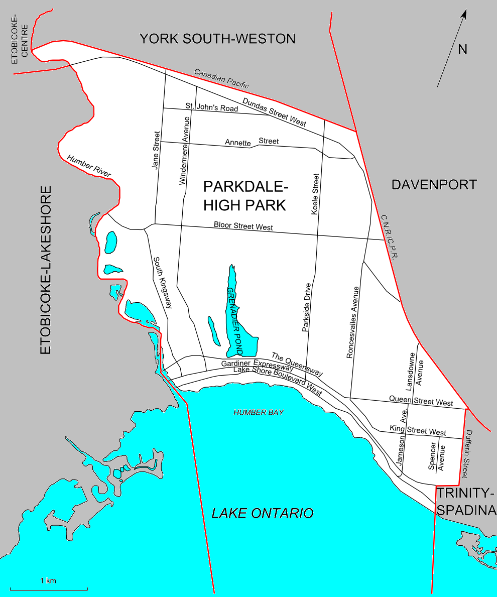 Map of the Ontario federal and provincial riding of Parkdale-High Park (boundaries defined federally in 2003 and adopted provincially in 2007)